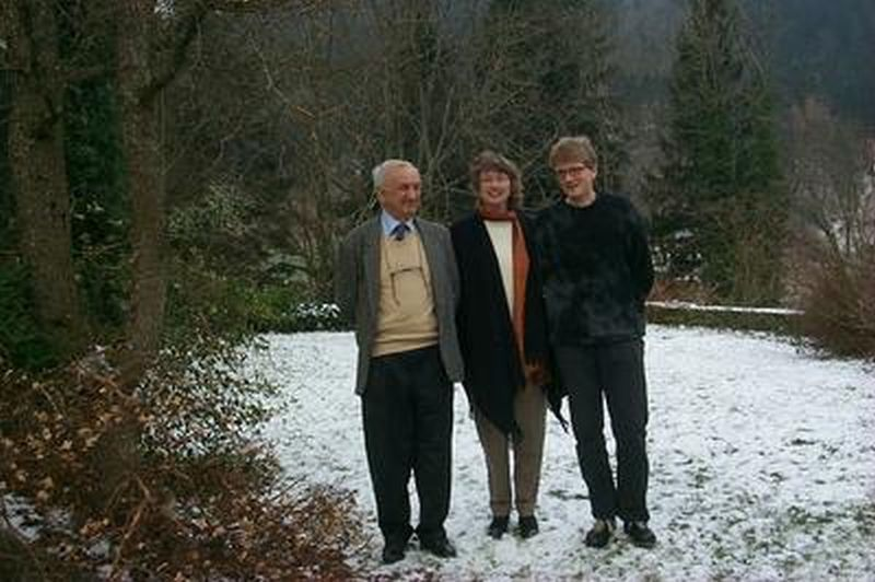 From left:Enrico Giusti, Kirsti Andersen, Volker Remmert, Oberwolfach 2003